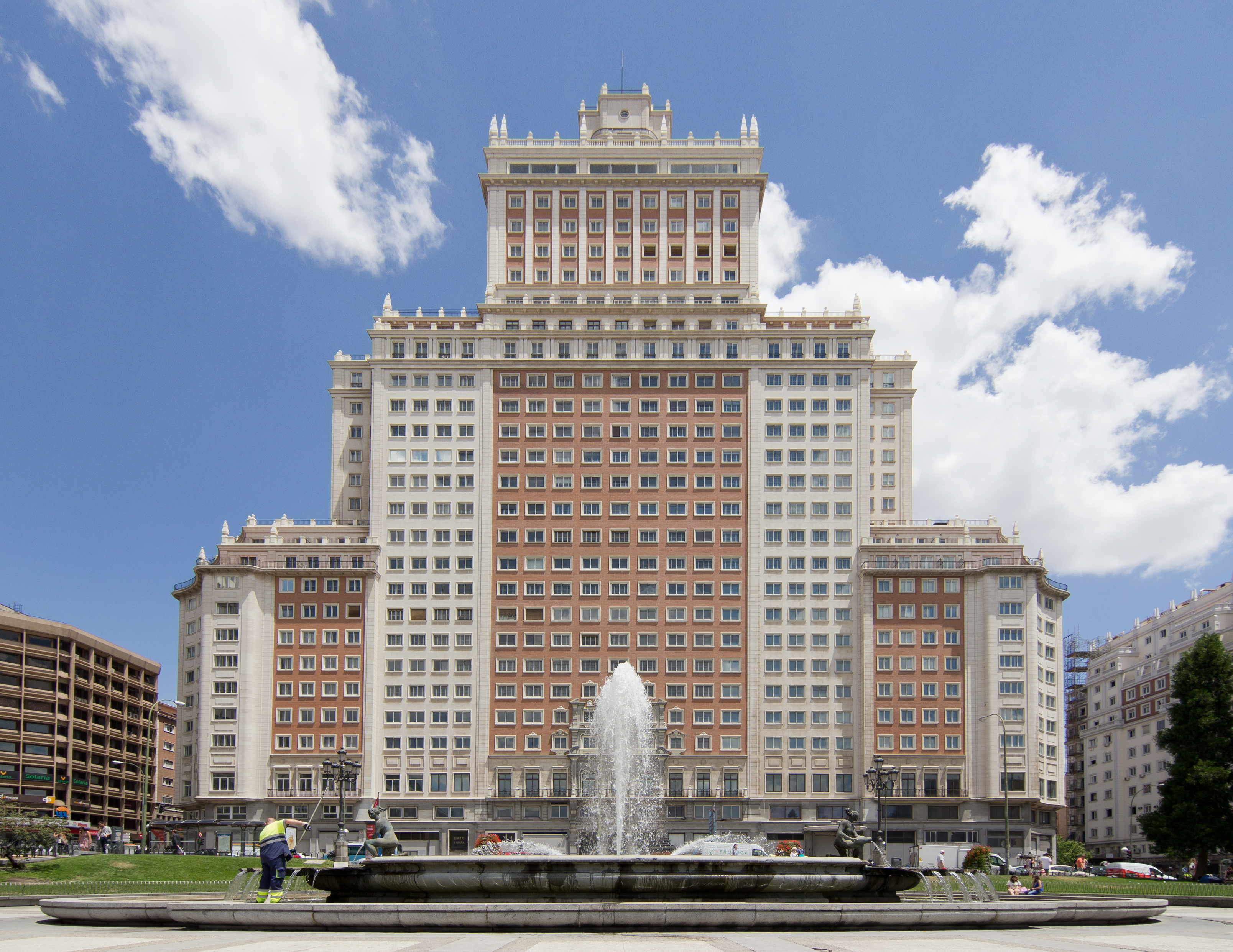 España Building, Madrid, Spain.